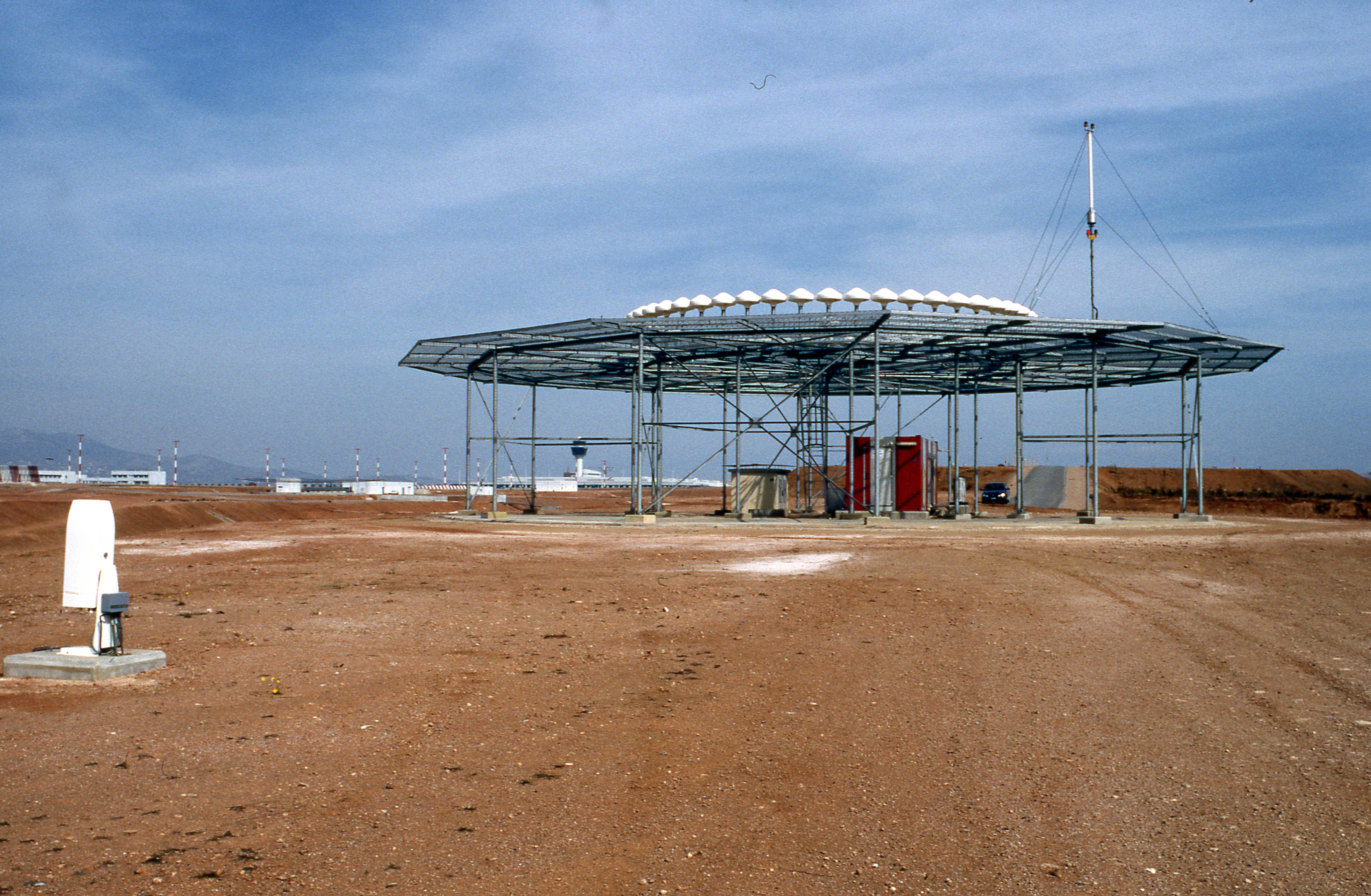 Terminal VOR/DME navaid at Athens International Airport LGAV